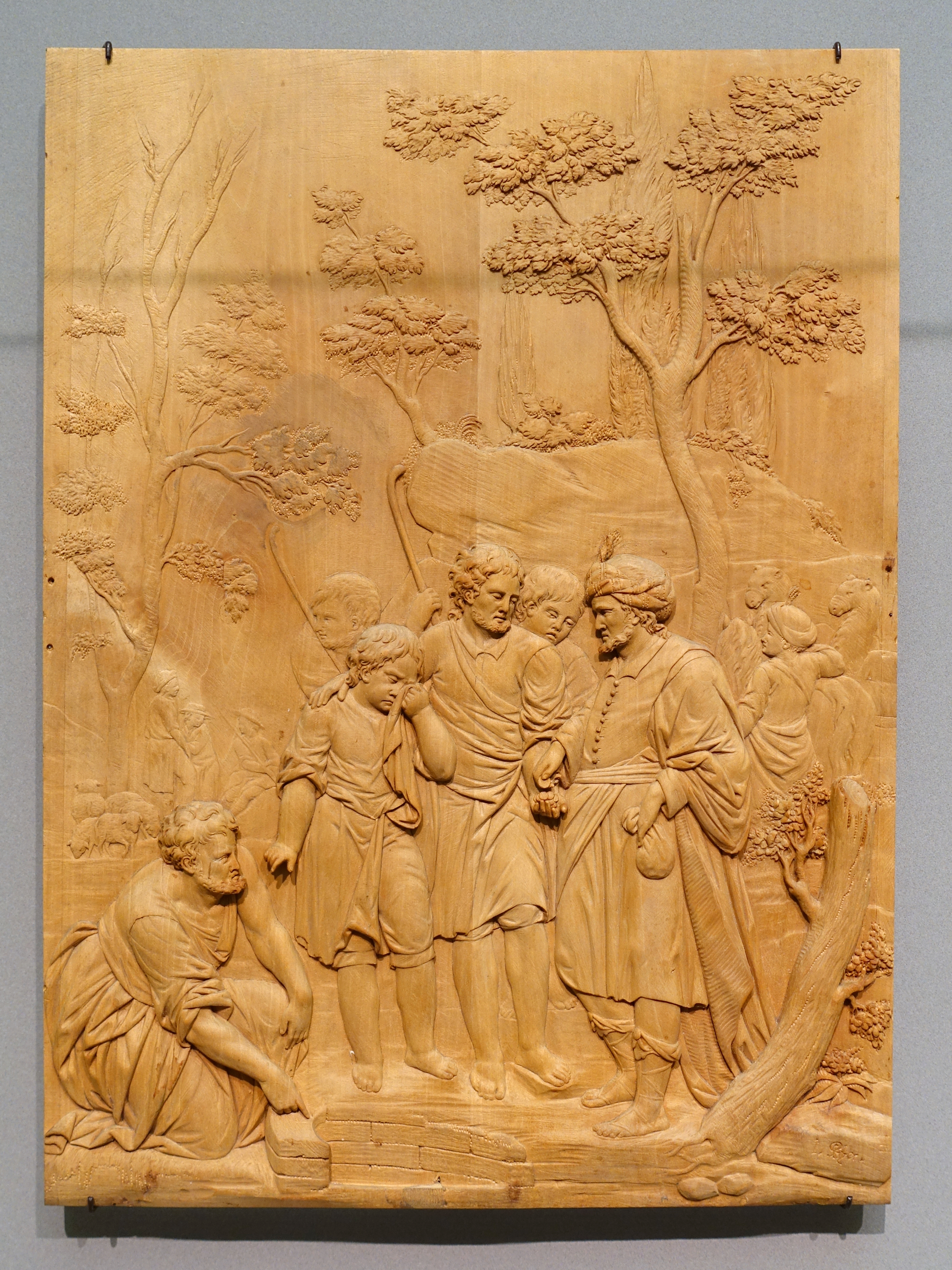 Exhibit in the Bode-Museum, Berlin, Germany. This work is in the public domain because the artist died more than 100 years ago.